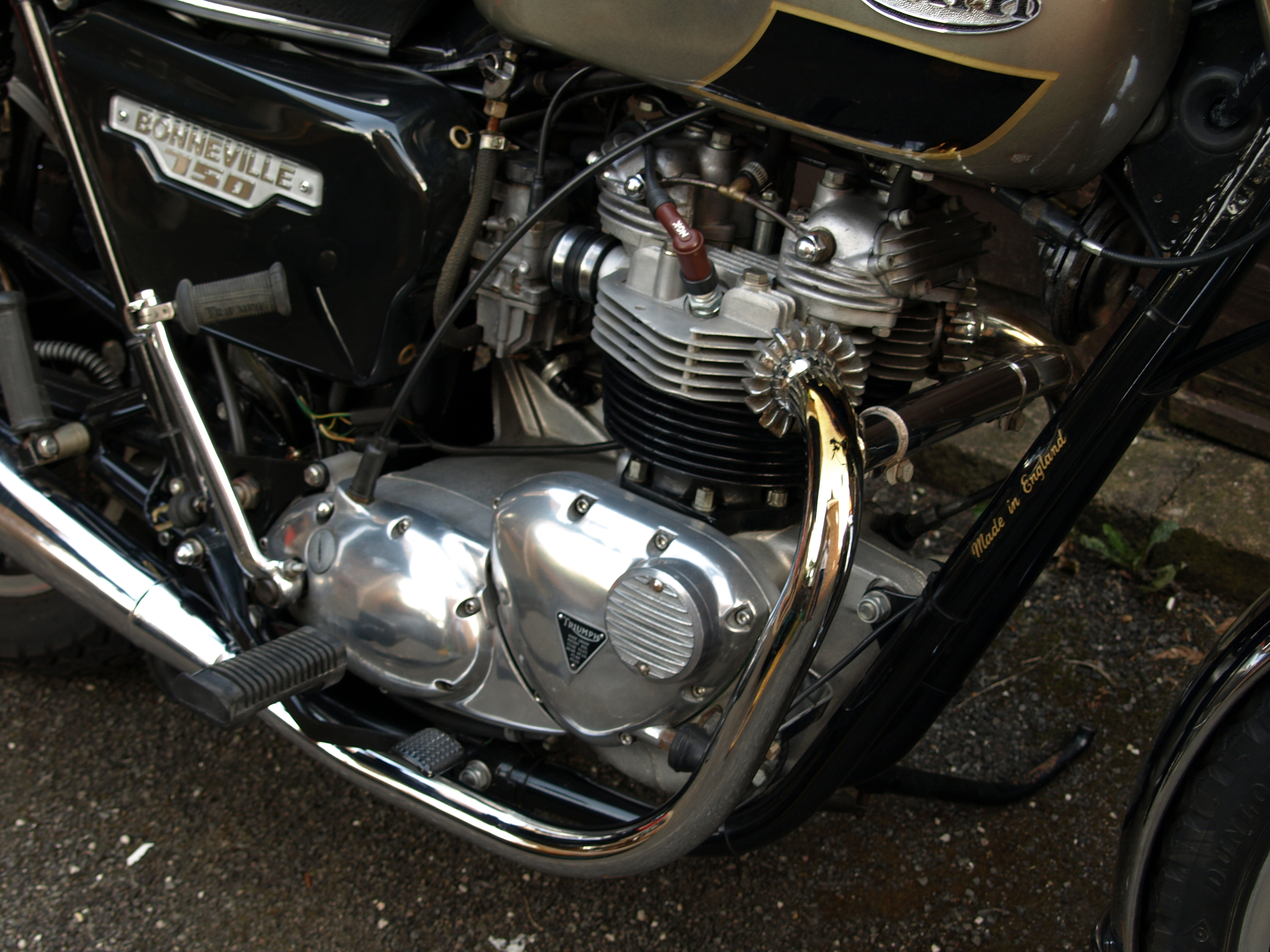 Detail of a Triumph T140E Bonneville motorcycle engine.